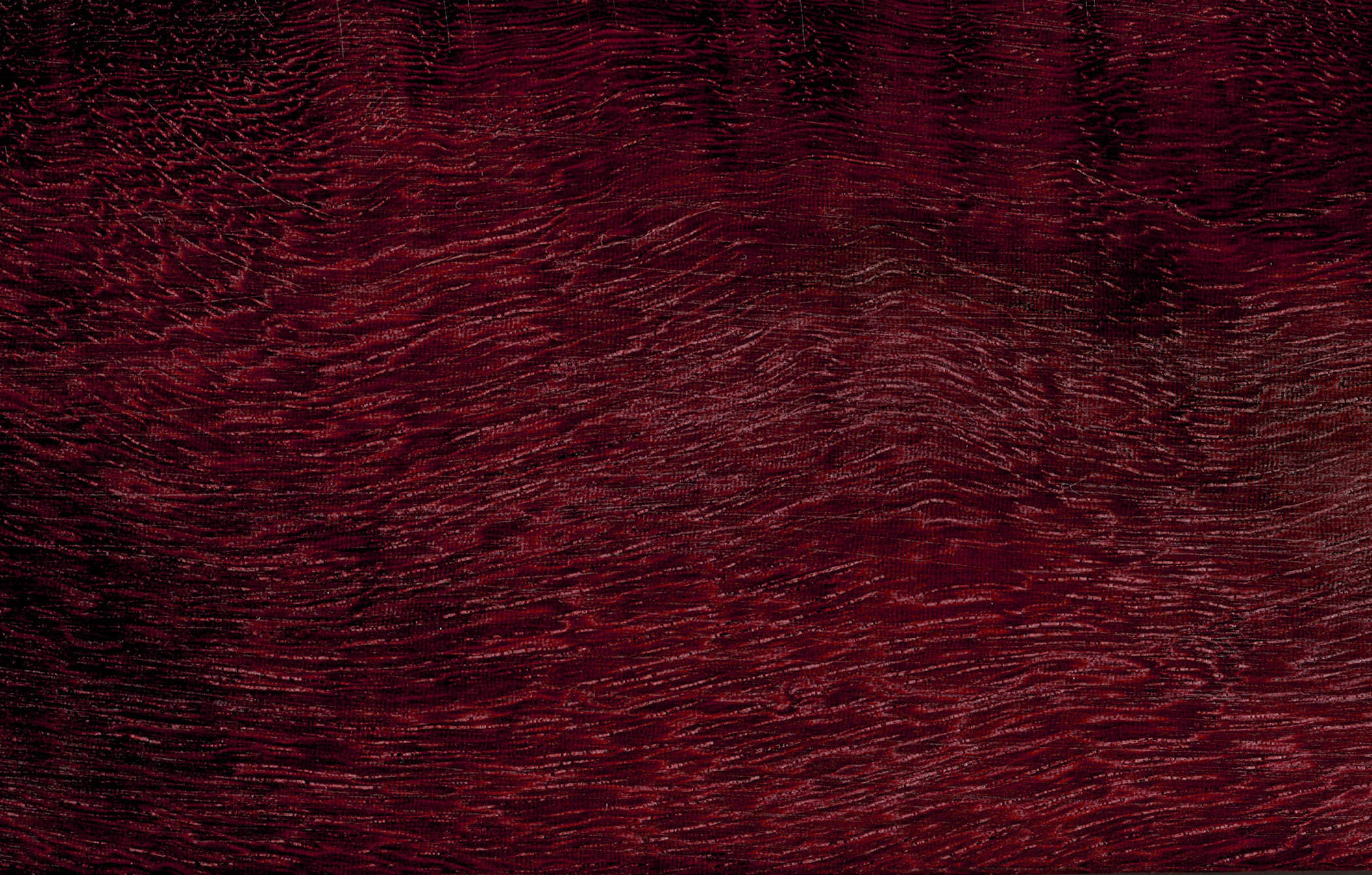 Heartwood of katalox (Swartzia cubensis)